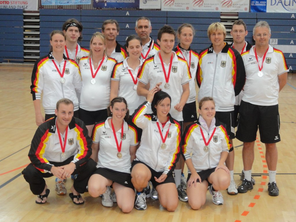 The German national Ringtennis team at the 2010 World Championships.